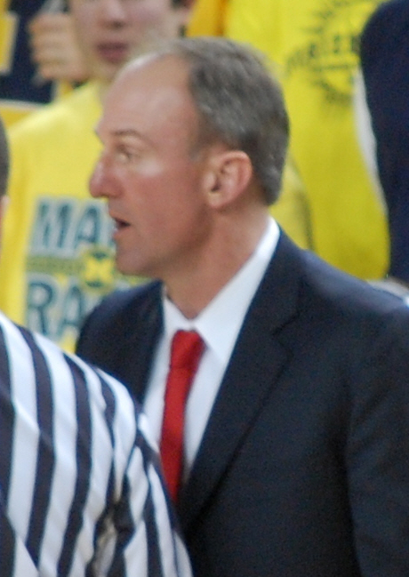 Thad Matta Michigan vs. Ohio State Crisler Arena Ann Arbor, MI January 17, 2009